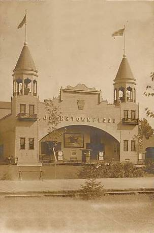 Johnstown Flood exhibit - Electric Park, Baltimore Asserted to be in public domain - postcard at least 90 years old.